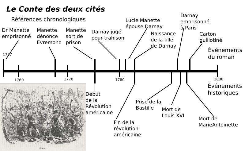 A Tale of Two Cities, Timeline of events